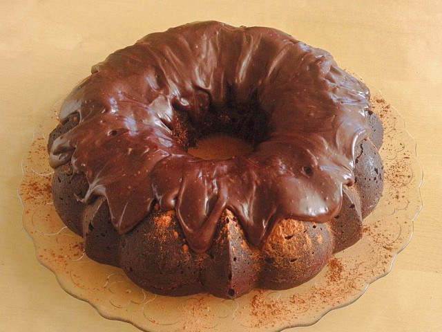 Celebrating St. Patrick's day with a chocolate bundt cake infused with Guiness